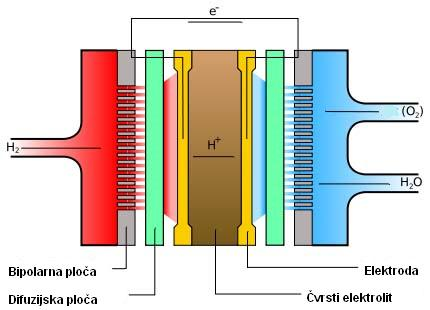 PEMFC fuel cell